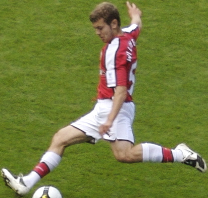 Jack Wilshere. Image cropped from original at flickr.